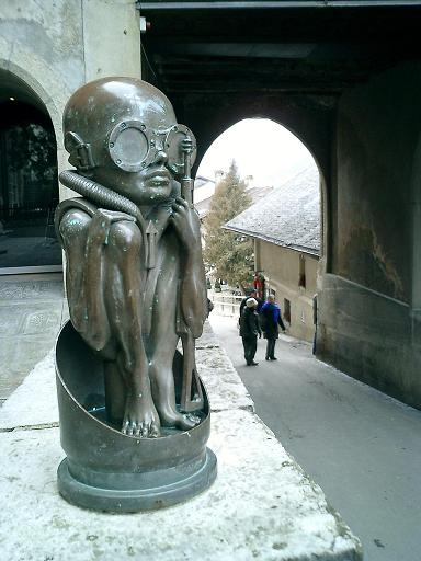 Sculpture in front of H.R. Giger Museum, in Gruyères.